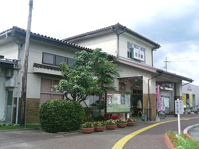 Amagi Station, Amagi Railway Amagi Line.